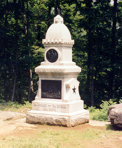 The monument to the 149th New York at Culp's Hill, Gettysburg. Photo by Jeffrey D. Ollis